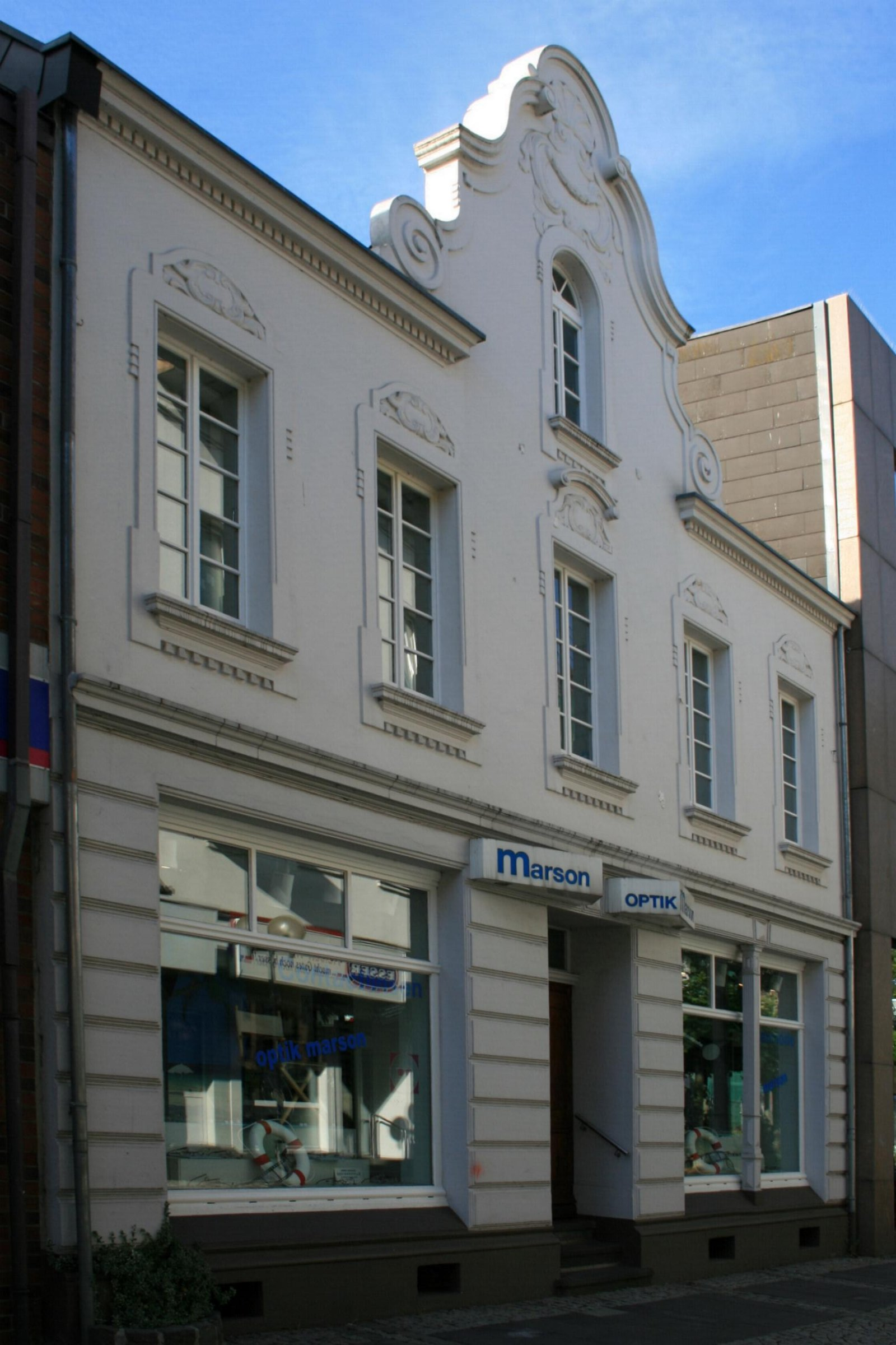 Cultural heritage monument No. B 044 in Mönchengladbach